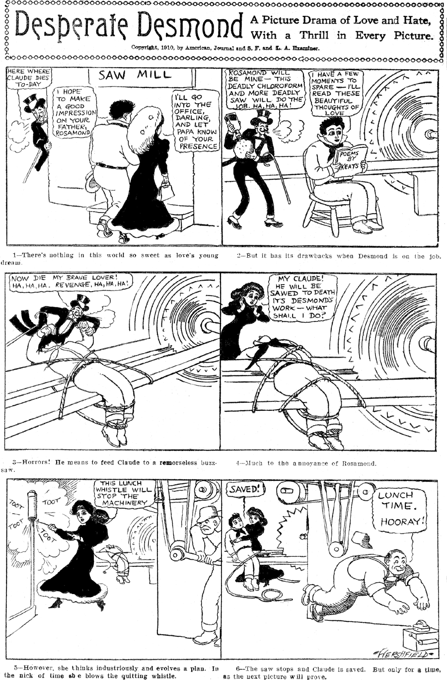 In this installment of Harry Hershfield's comic strip "Desperate Desmond", Desmond tries to murder Claude by an elaborate plot involving chloroform and Rosamund's father's sawmill. The text in this image should be transcribed and included in the description on this page. See also Inscription . The Google OCR tool may be of use in transcribing images.